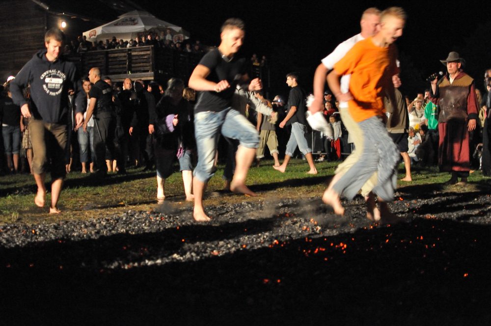 Firewalking